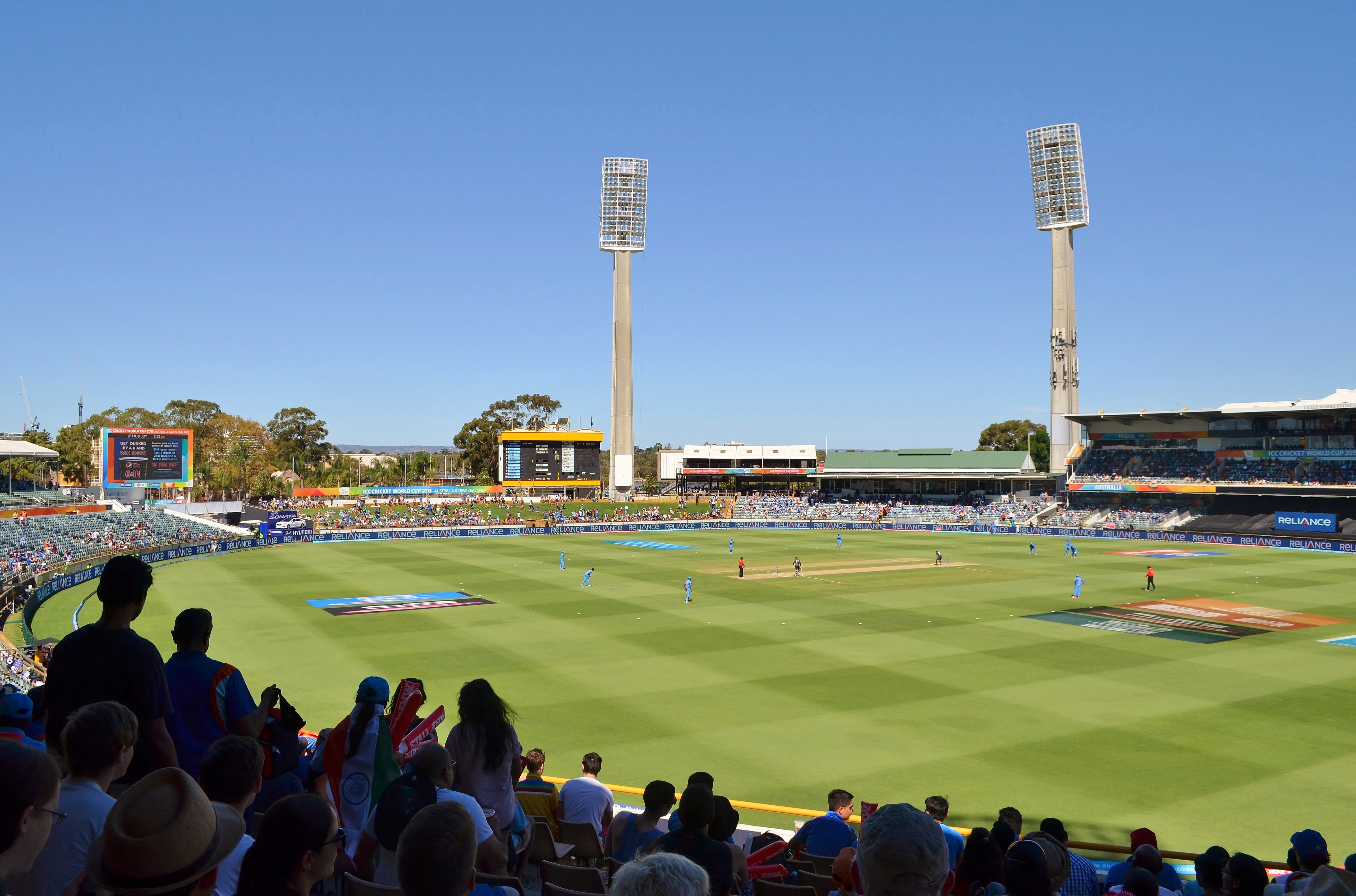 View of the WACA Ground as the United Arab Emirates team bats against India during their 2015 Cricket World Cup match.